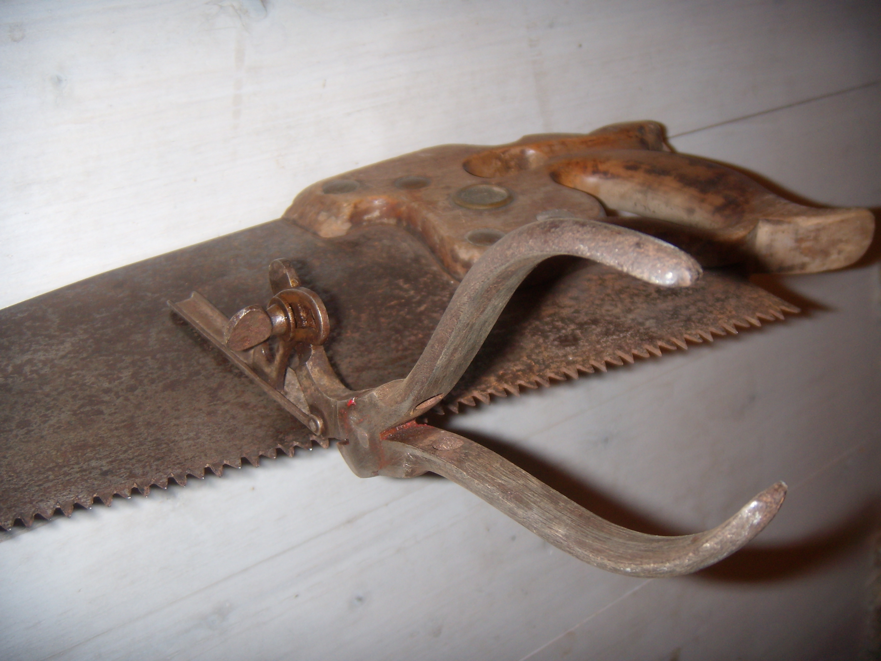 Pliers for a saw